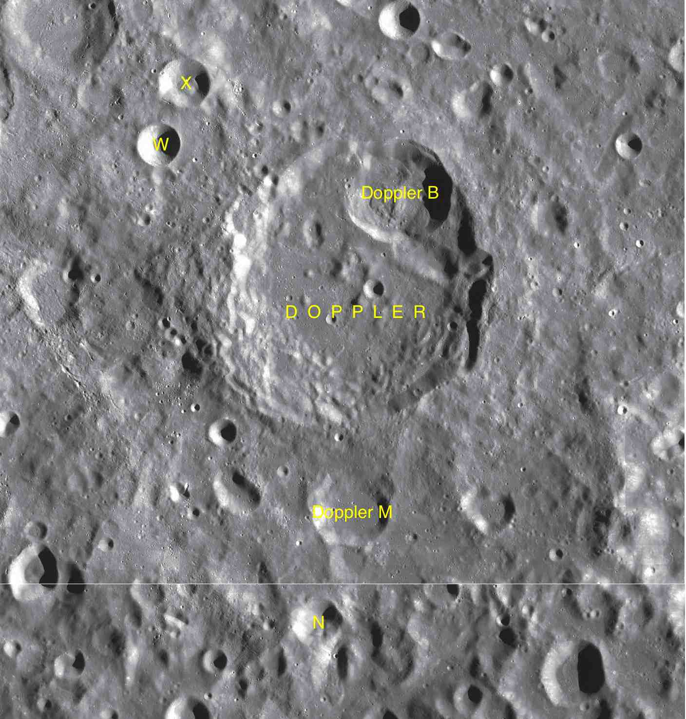 Parts of the charts LAC-87, LAC-105 used for the presentation